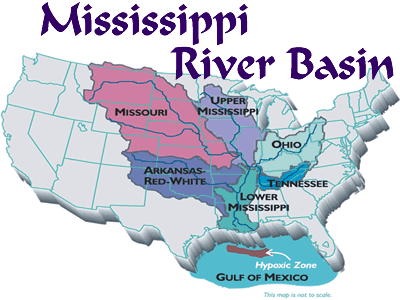 Watershed of mississippi